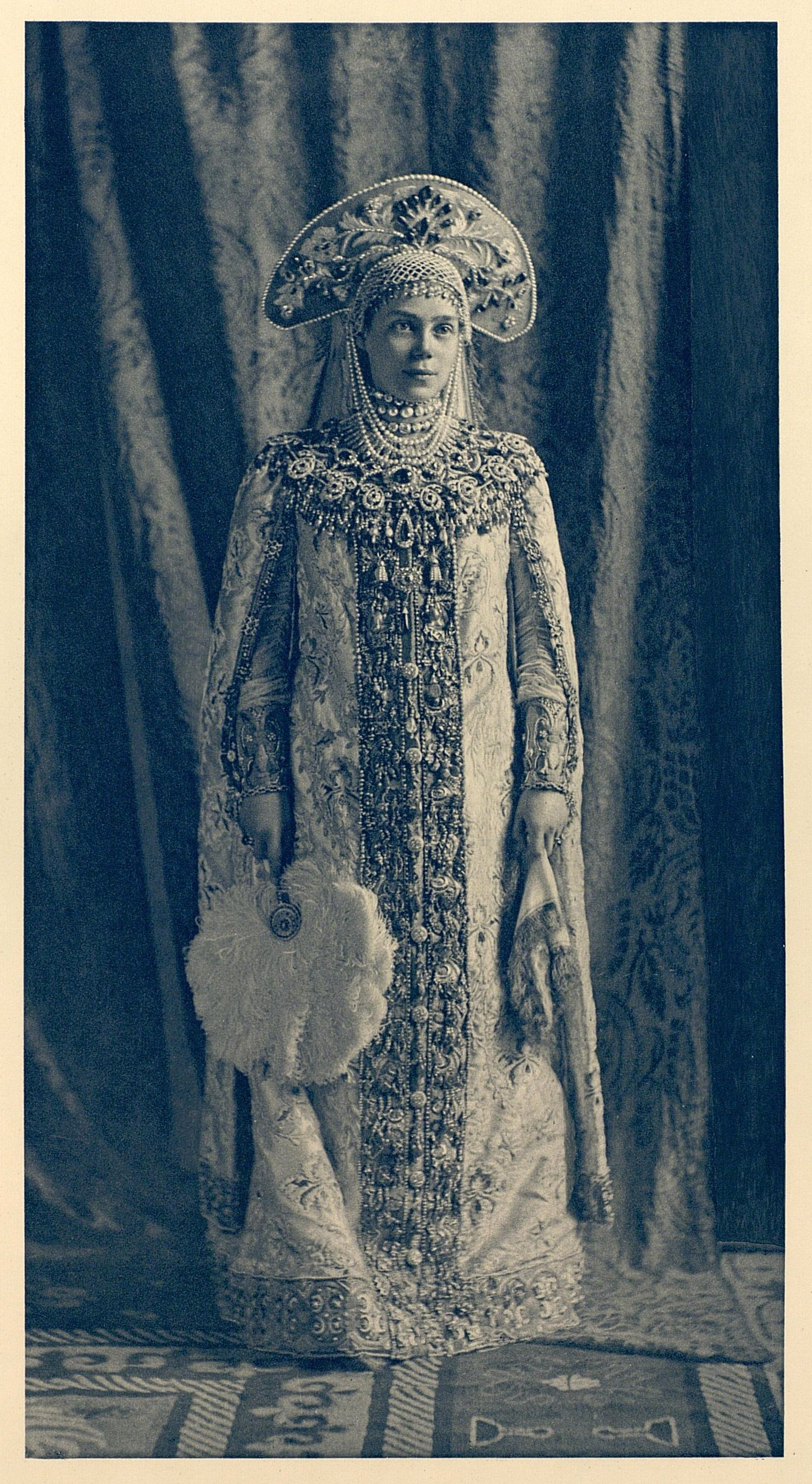 Grand Duchess Xenia Alexandrovna, in boyarynya attire during the time of Alexei Mikhailovich, dressed for a costume ball in traditional seventeenth-century Russian fashion. This image is part of the exhibit A Romanoff Album at the Herbert Hoover Memorial Exhibit Pavilion, the Hoover Institution, Stanford University, Stanford, Calif.